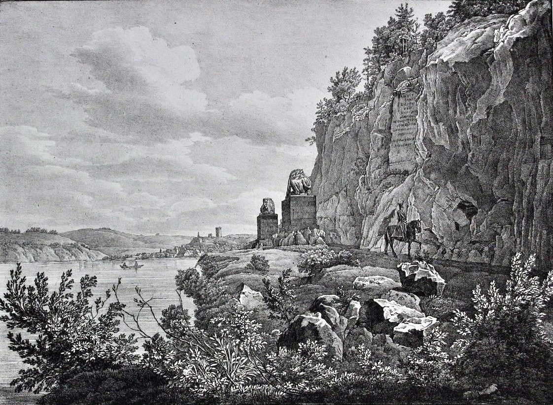 Bad Abbach, Löwendenkmal, 1826